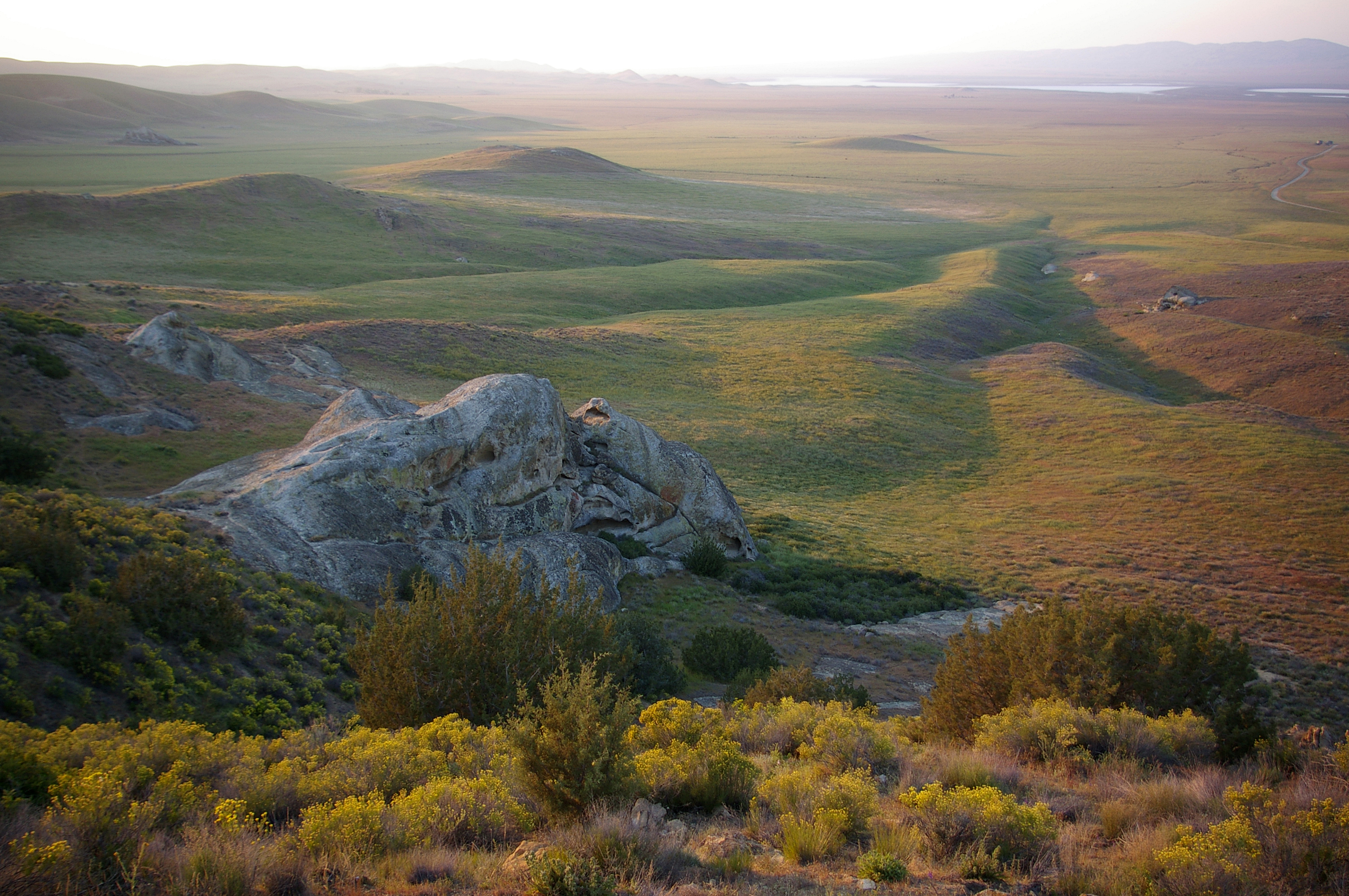 THE CARRIZO PLAIN